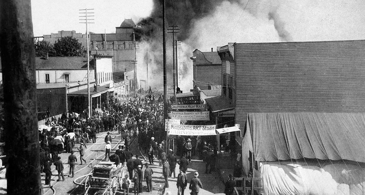 Looking south on 1st Ave. from Spring St. Minneapolis Art Studio (photo studio) at right. Original photograph by Boyd and Braas.